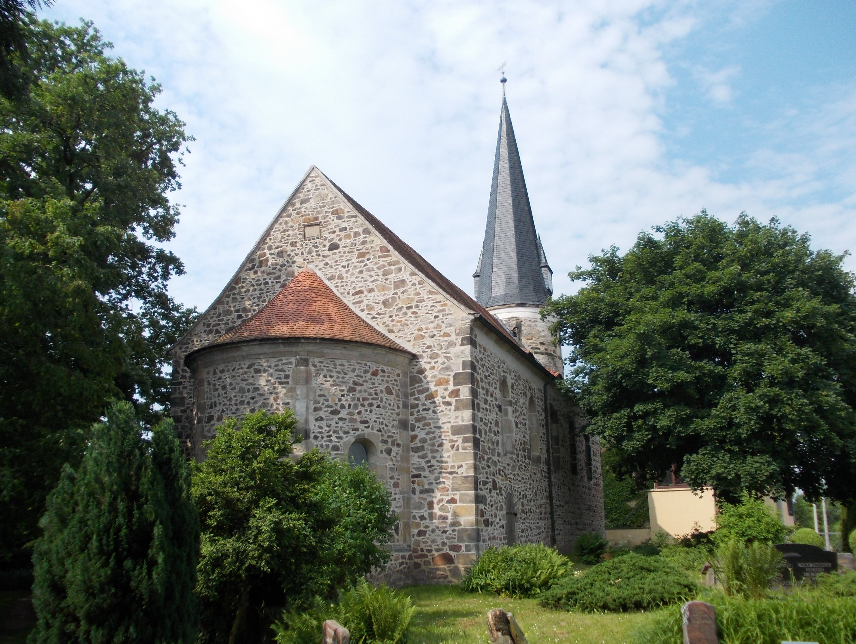 St. Wenceslaus Church on Peissen (Landsberg, district: Saalekreis, Saxony-Anhalt)